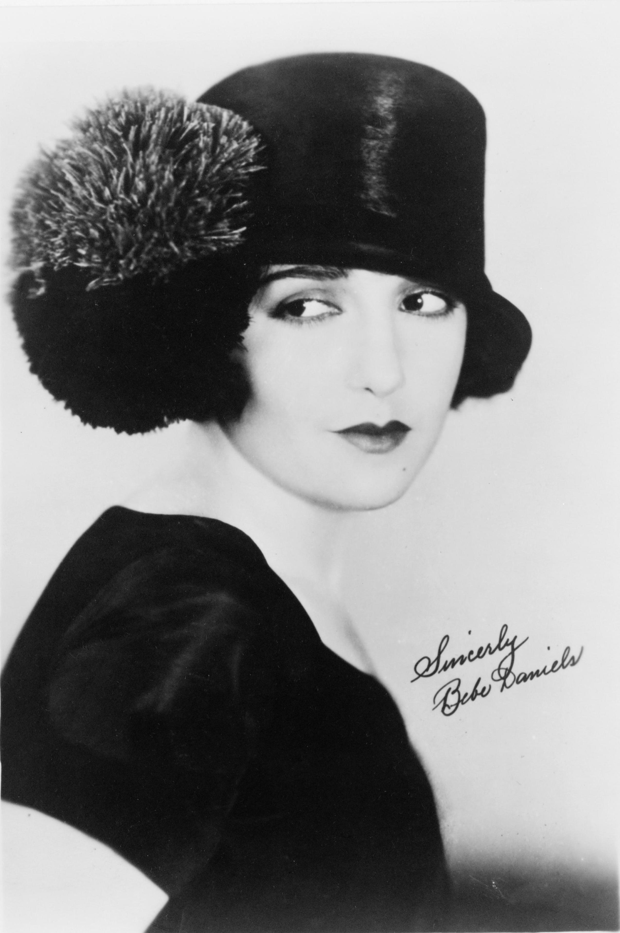 depicted person: Bebe Daniels (age: 24.33) Autograph of her appears on photo.